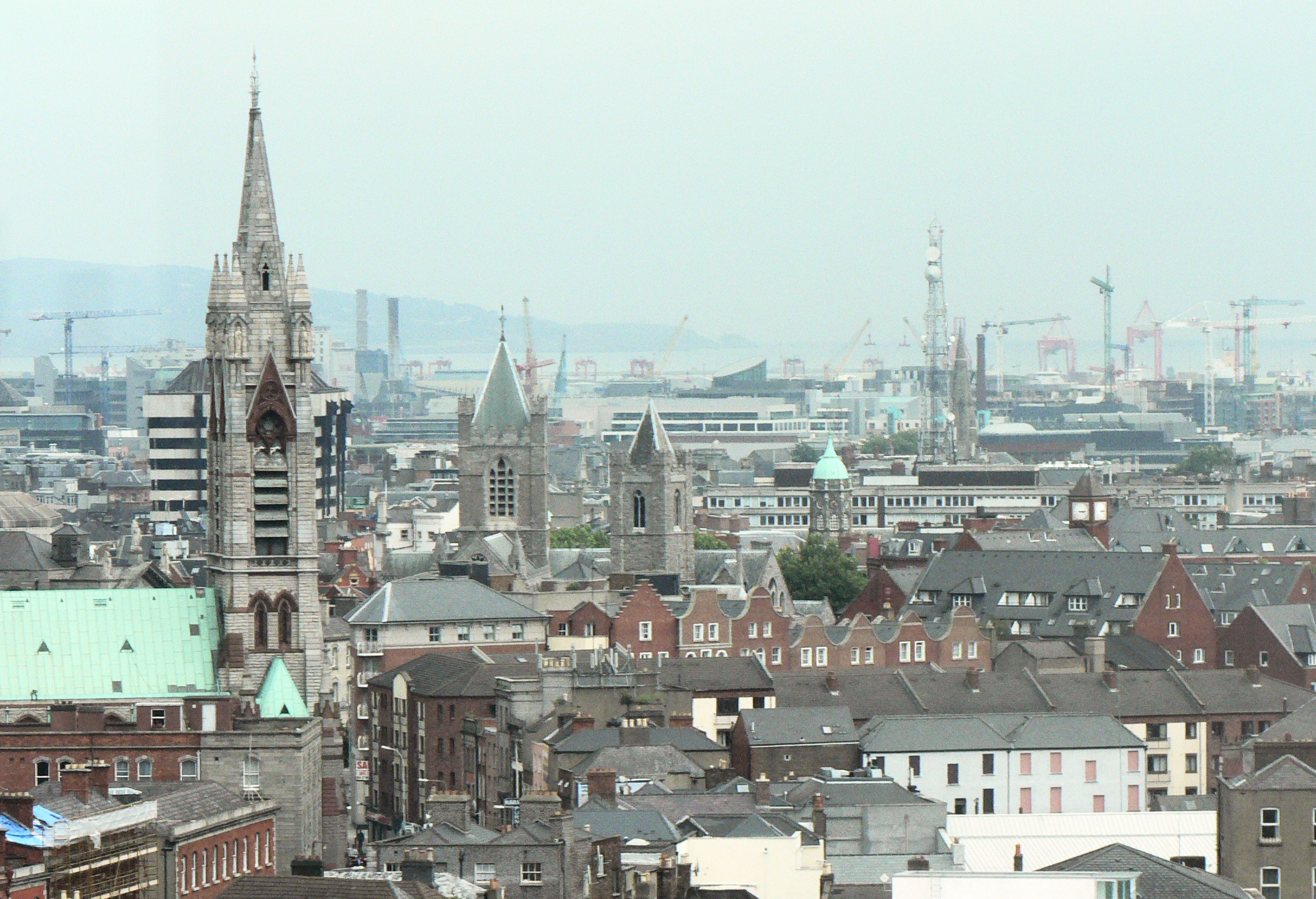 Dublin skyline from Guinness storehouse